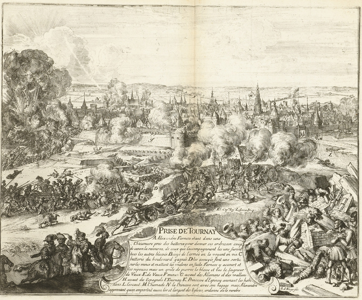 Siege the city of Doornik 1581